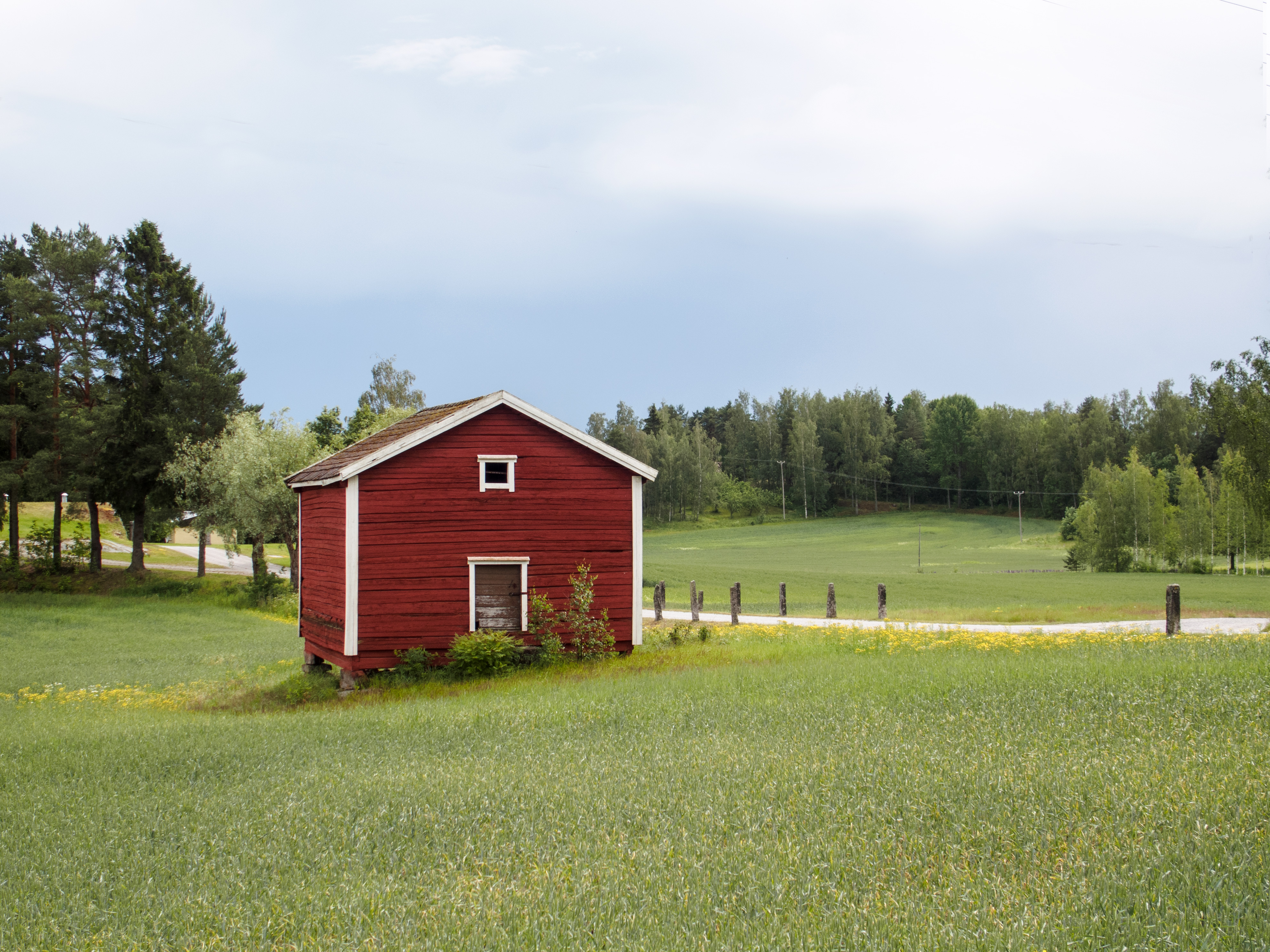 Old granary and private road marked with stone pillars near Kokkila, Angelniemi, Salo, Finland, June 2014.